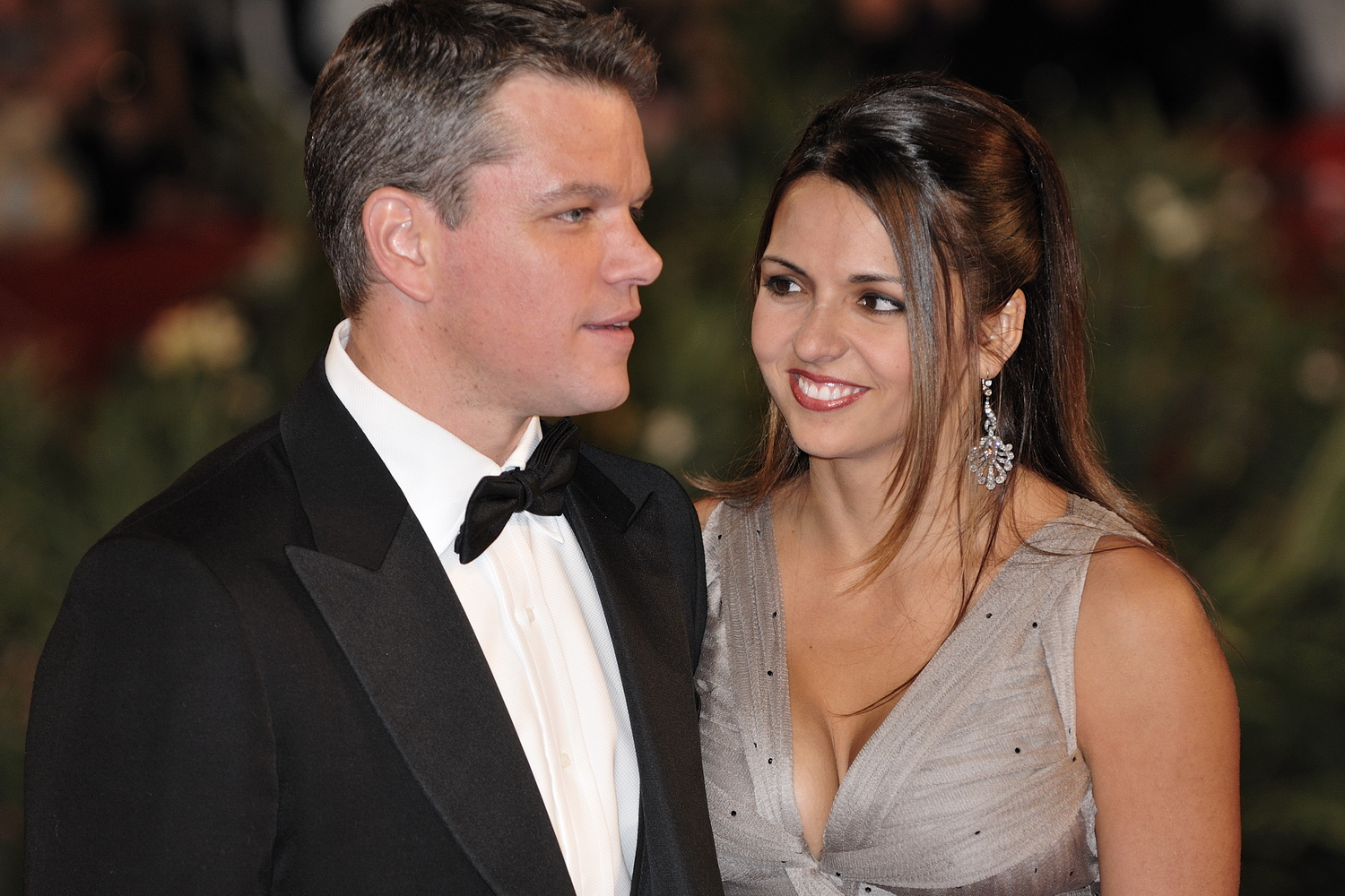 Matt Damon and his wife Luciana Bozán Barroso at the 2009 Venice Film Festival